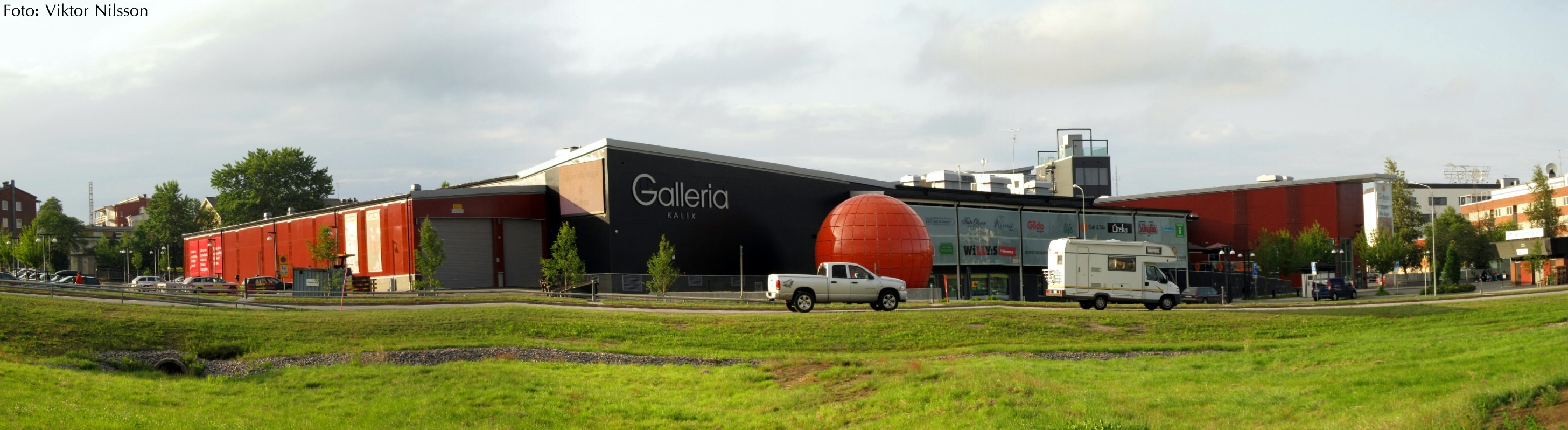 Galleria Kalix summer 2013.